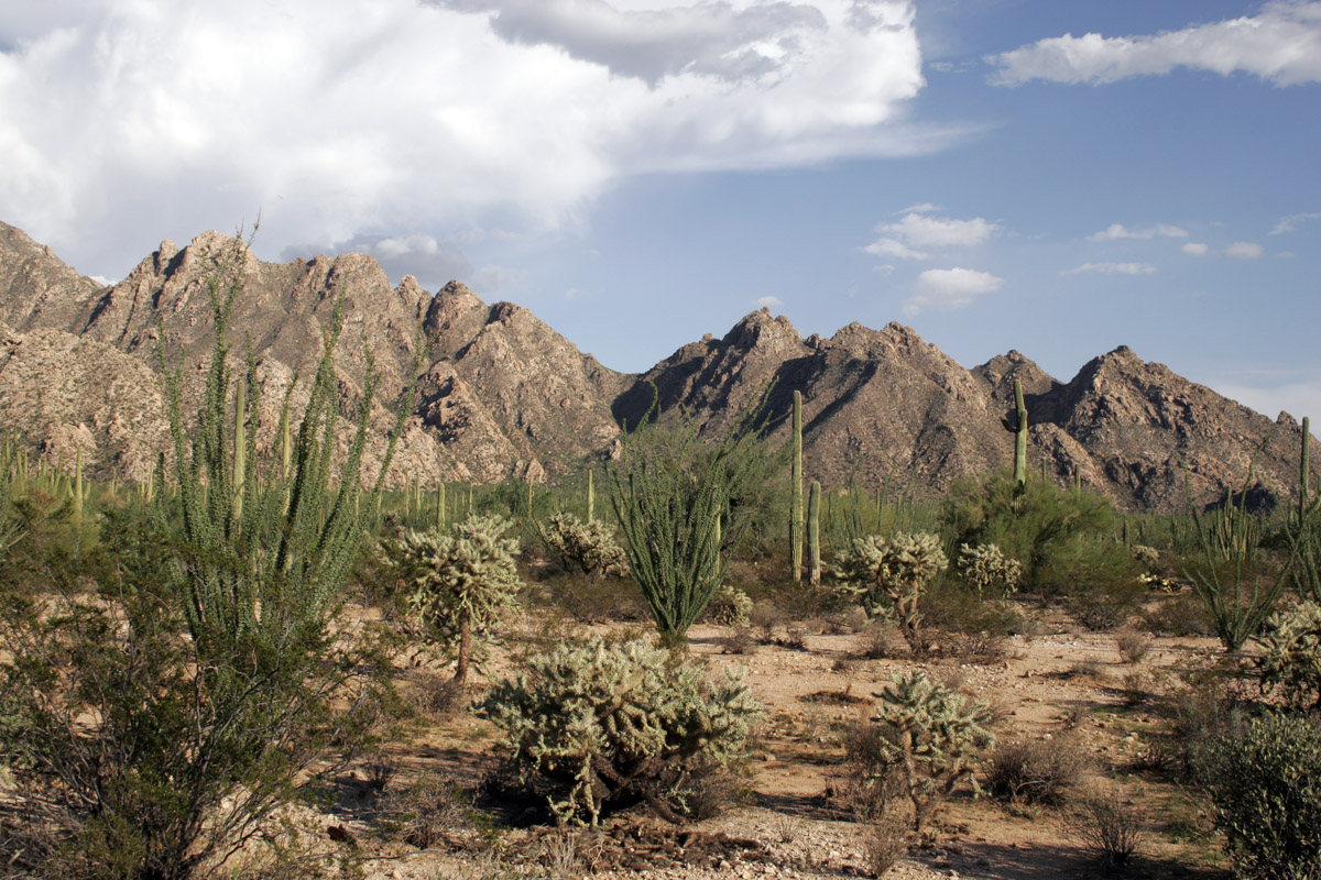 Sonoran Desert, Mexico.